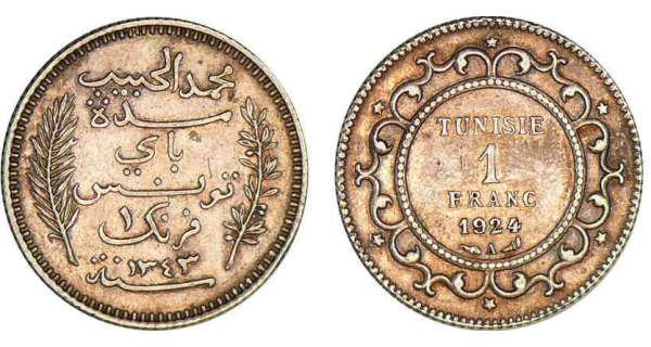 This is the Tunisian franc in 1924